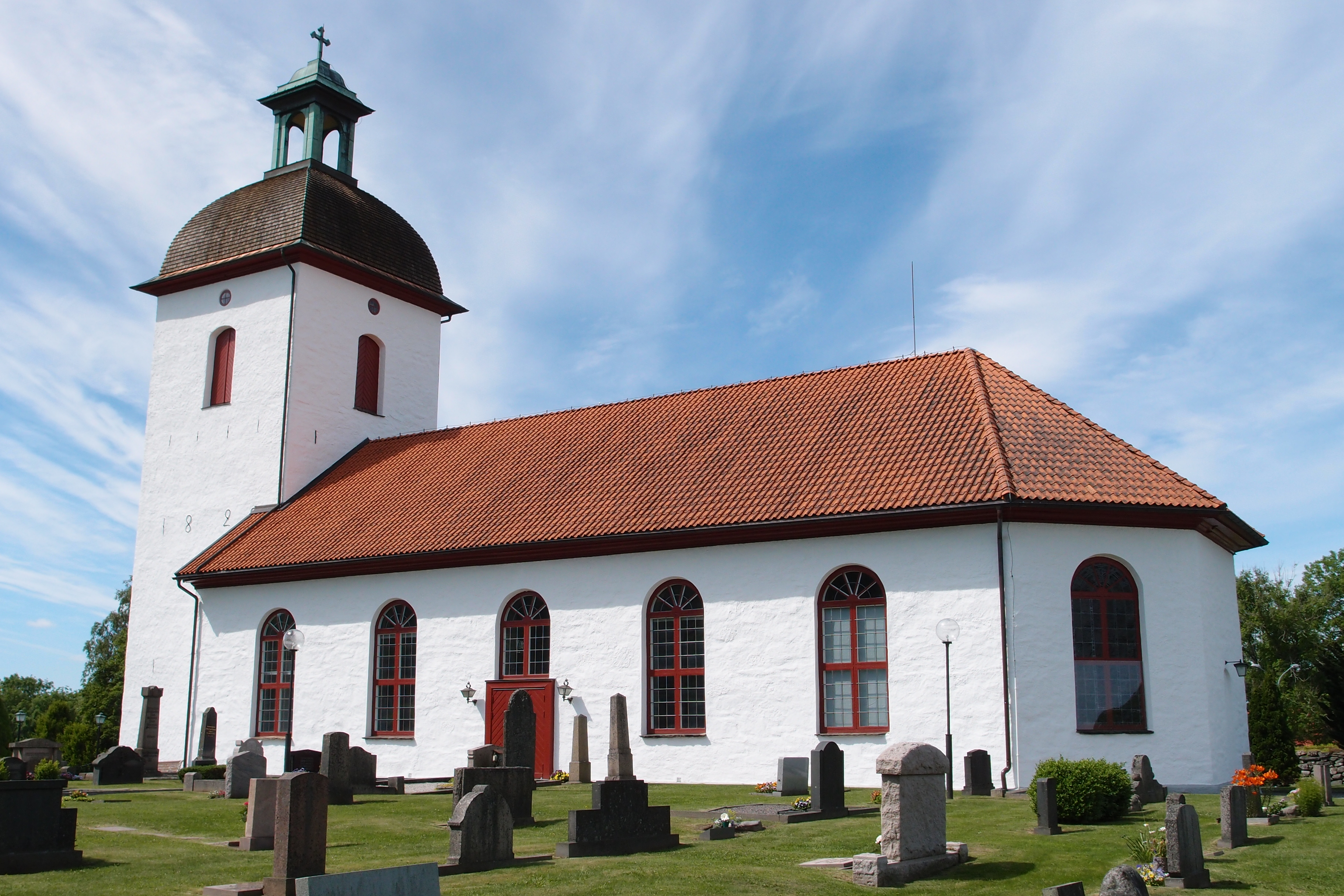 Horred Church